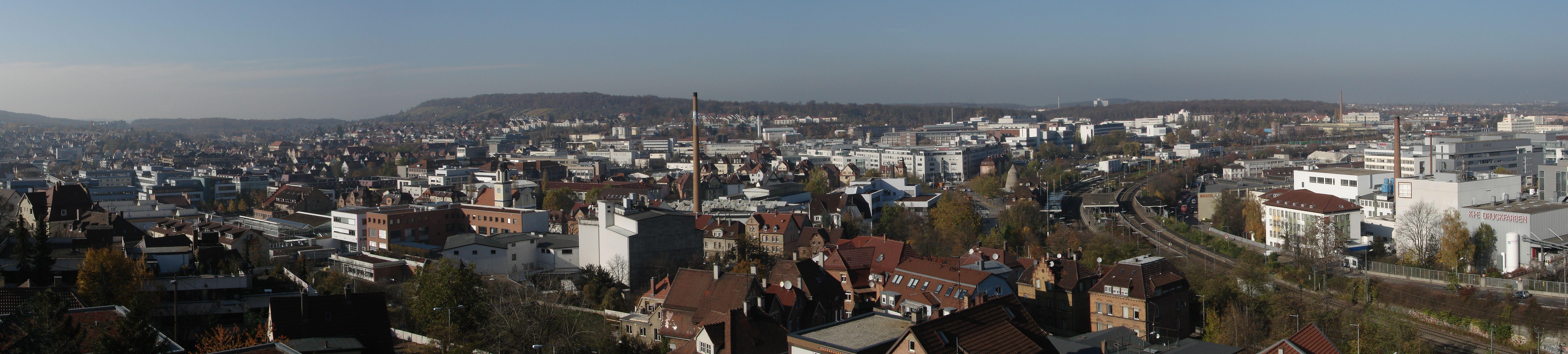 Panoramic view of Stuttgart-Feuerbach